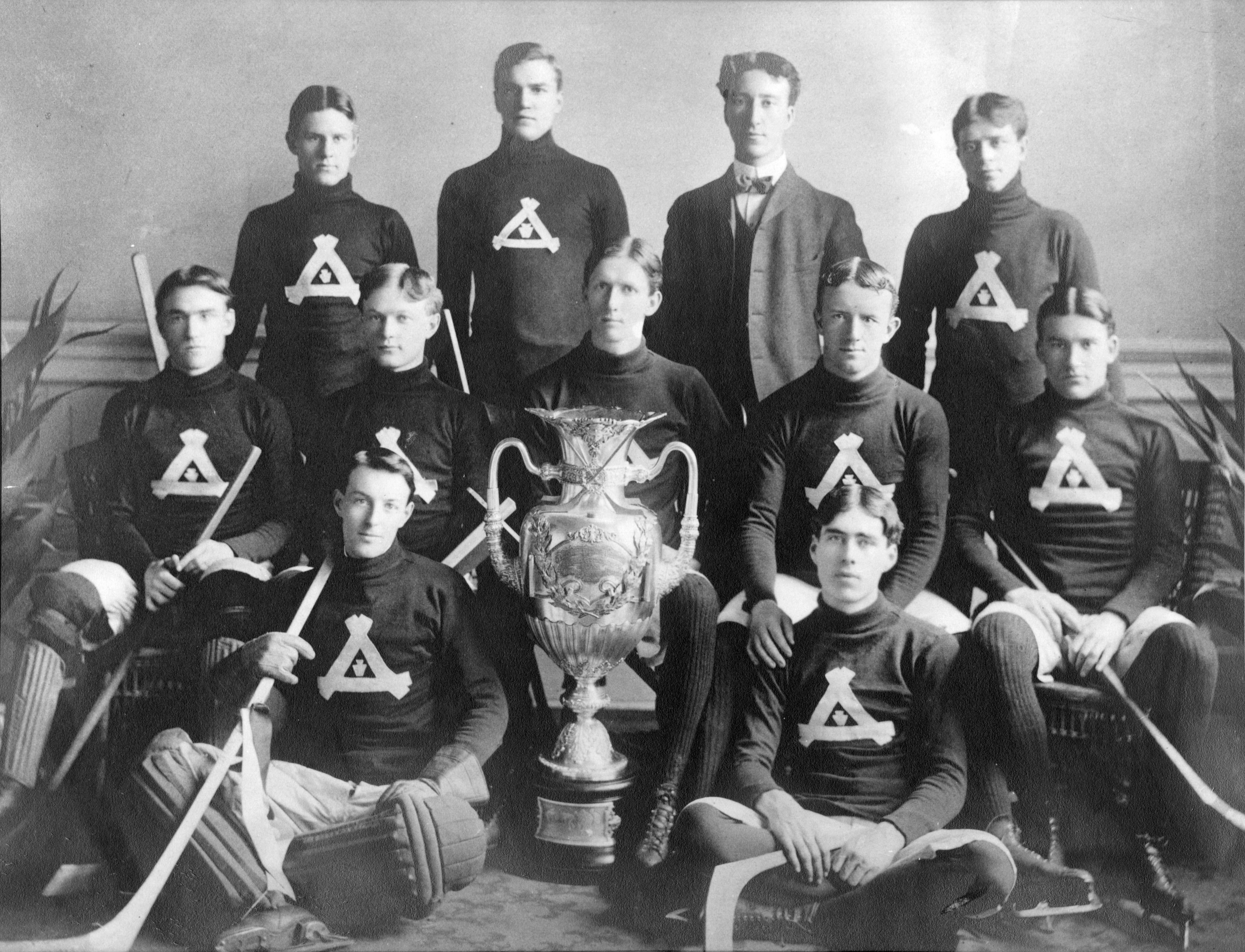 A team photo of the Pittsburgh Athletic Club hockey team in 1901. The photo was taken of the team after winning the $500 Trophy in 1901